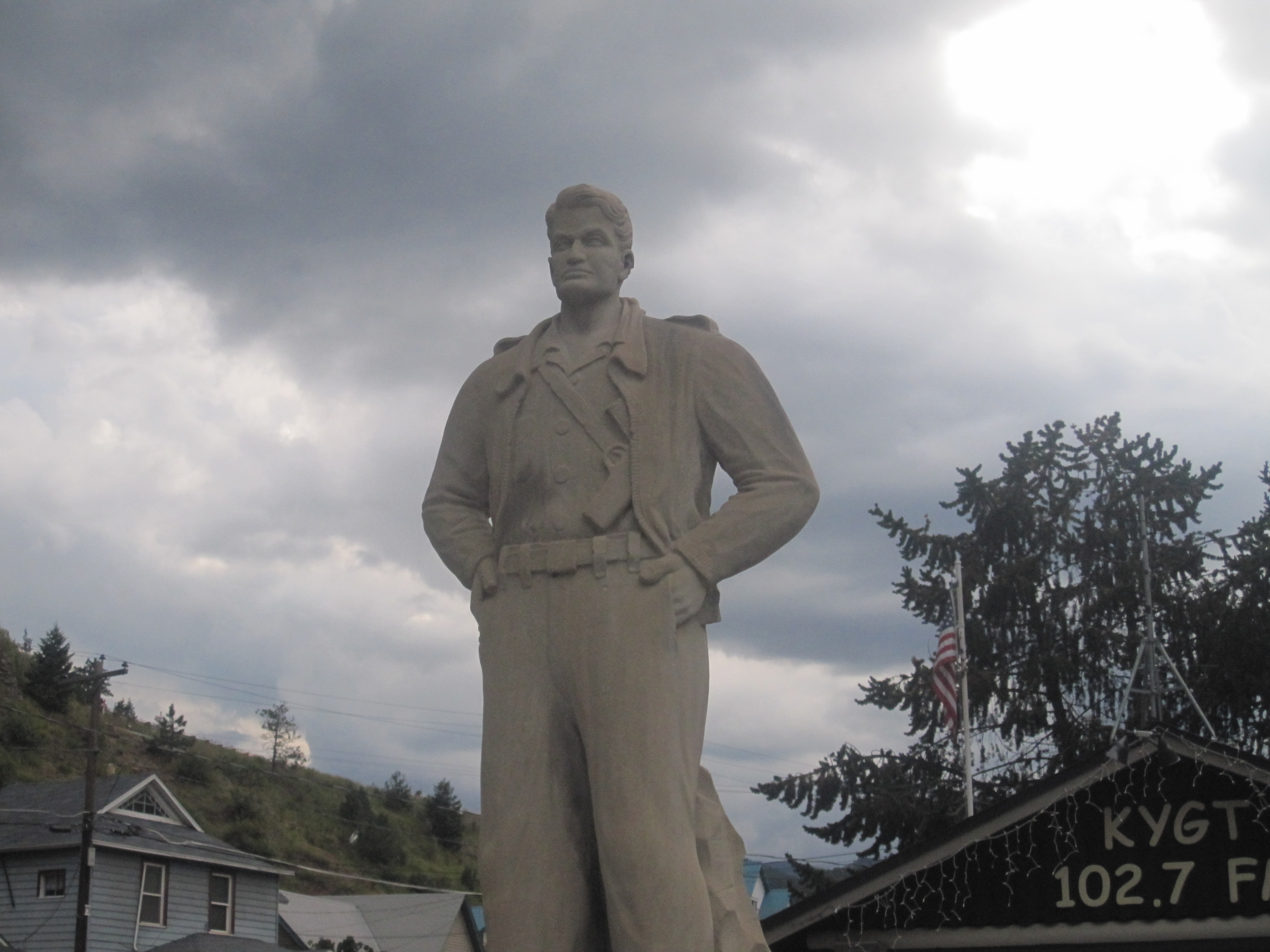 Statue of Steve Canyon in Idaho Springs, Colorado taken with Canon camera.